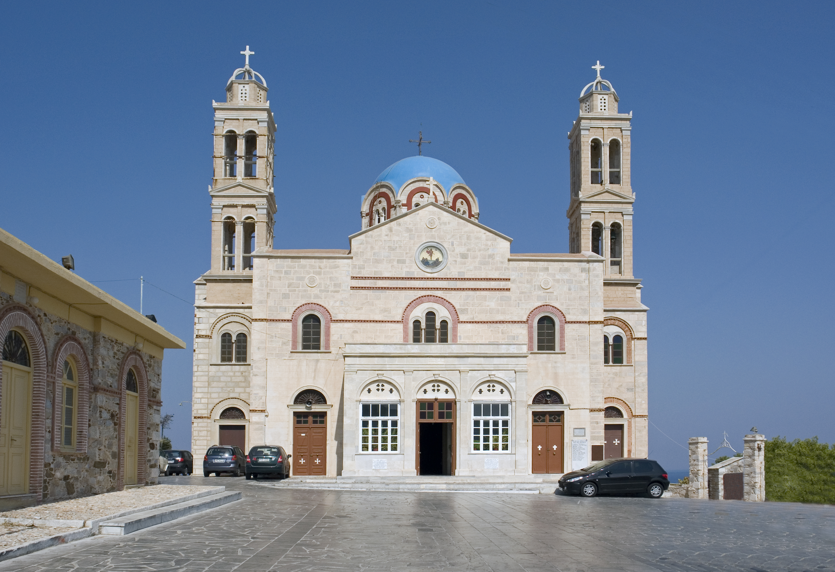 Syros, Anastasi (Resurrection) church in Ermoupolis